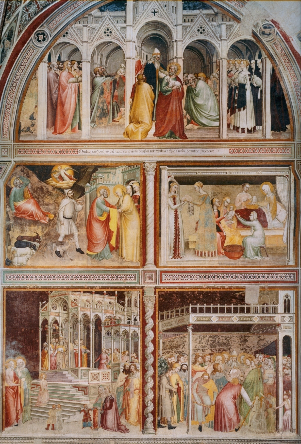 Rinuccini Chapel, Northern wall